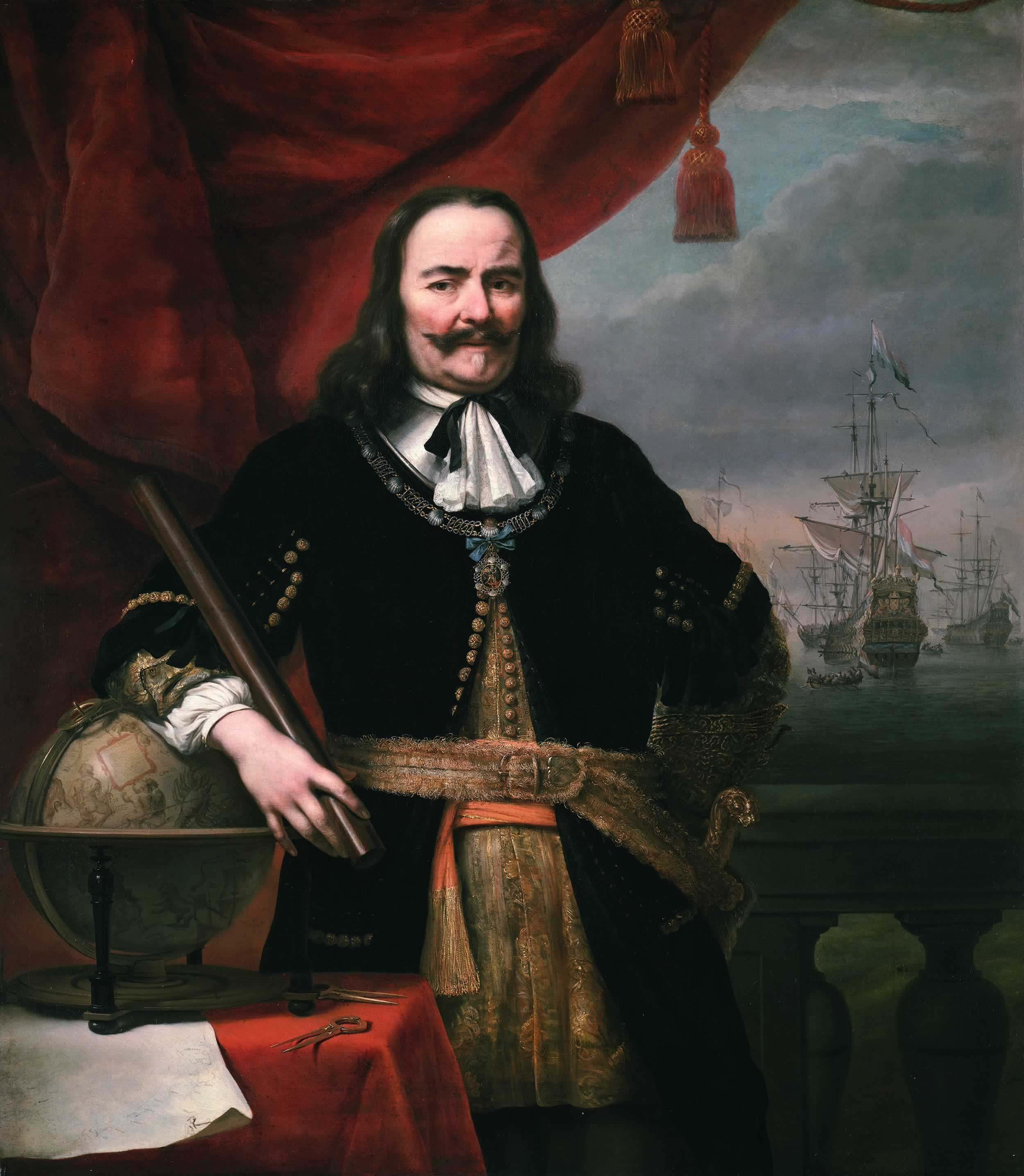 Portrait of Michiel Adriaenszoon de Ruyter, 1607–1676, Lieutenant-Admiral-General of the United Provinces